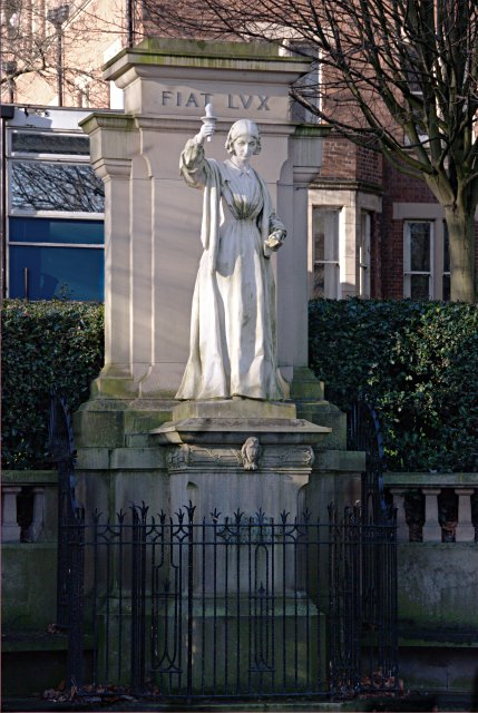 Florence Nightingale The London Road statue of Florence Nightingale, including the surrounding stonework, is a Listed Building (Grade 2). Dating from 1914, it stands in front of the grounds to Derbyshire Royal Infirmary. The sculptor was Countess Feodora Gleichen, who was related to Queen Victoria. She was the first woman member of the Royal Society of British Sculptors. Florence Nightingale's family had a home at Lea Hurst, near Derby. In 1860 Dr William Ogle was appointed to the Derbyshire Royal Infirmary at a time when the mortality rate amongst patients was high. After lengthy correspondence with Florence, it was decided to rebuild the hospital along lines suggested by her. The new DRI opened in 1869 with a wing named after her.